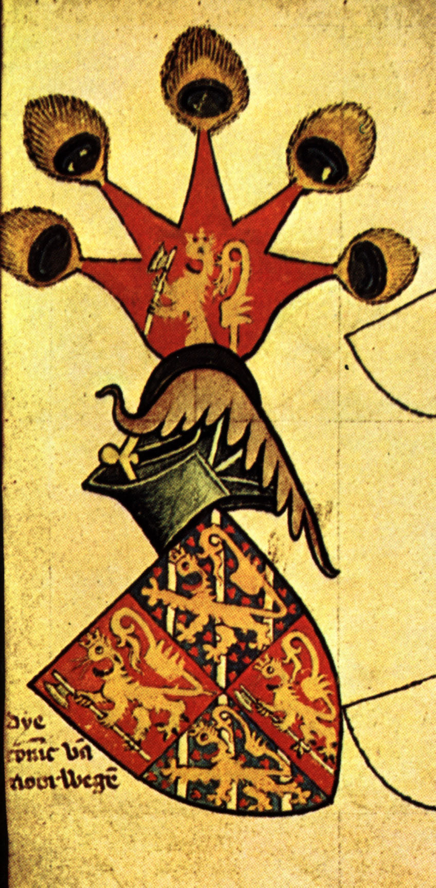 Arms of king Håkon VI (r. 1343-1380) of Norway and Sweden.